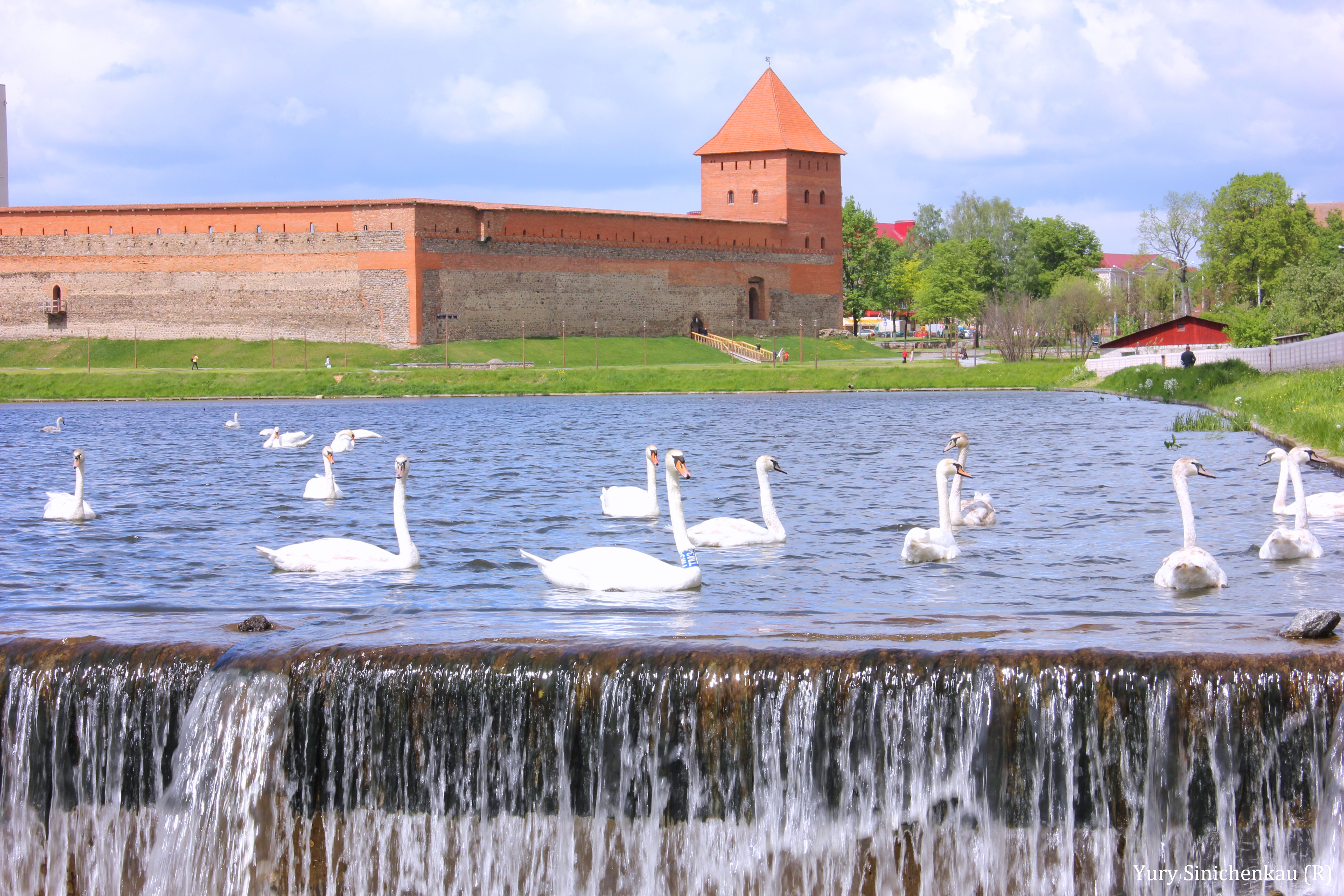 Беларуская (тарашкевіца): Замак. г. Ліда This is a photo of Belarusian heritage monument. Reference number: 411Г000328 ( WLM)